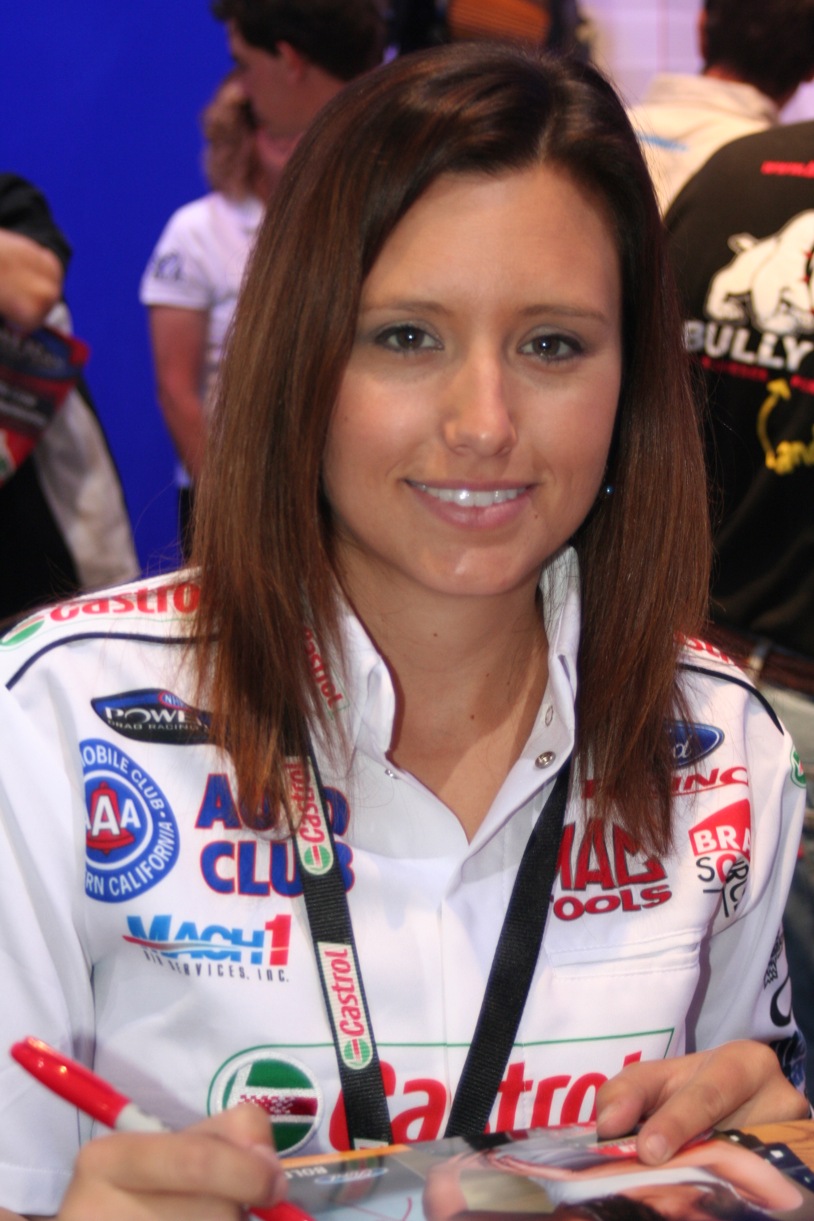 NHRA drag racer Ashley Force in 2007Ashley Force SEMA 2007